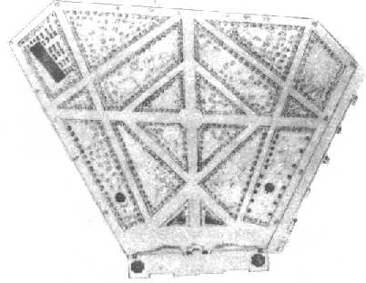 Plan of the Passeio Público (Public Park) of Rio de Janeiro, built 1779-1783 by architect Mestre Valentim